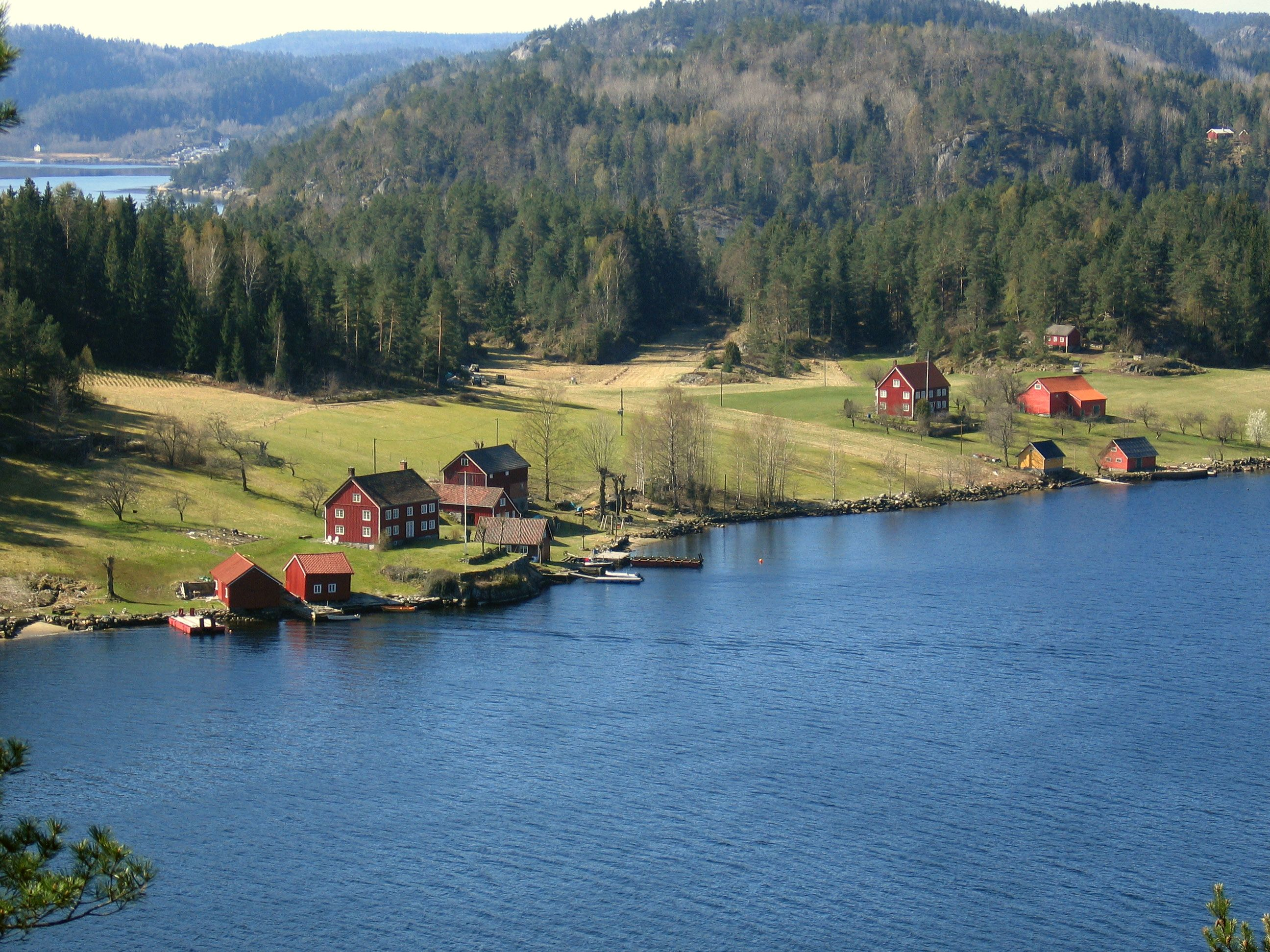 Landscape in Søndeled, Søndeledfjorden